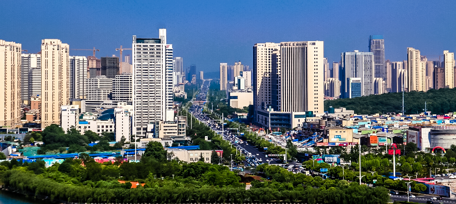 Overlooking the Donghai Avenue in Bengbu mussel mountain area